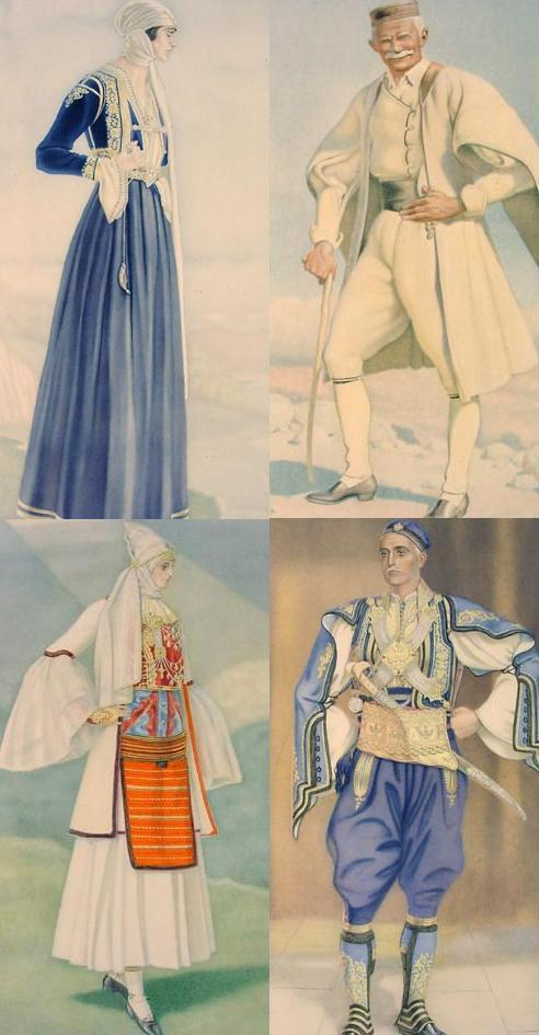 Drawings of traditional Greek costumes of Northern Epirus, Albania.